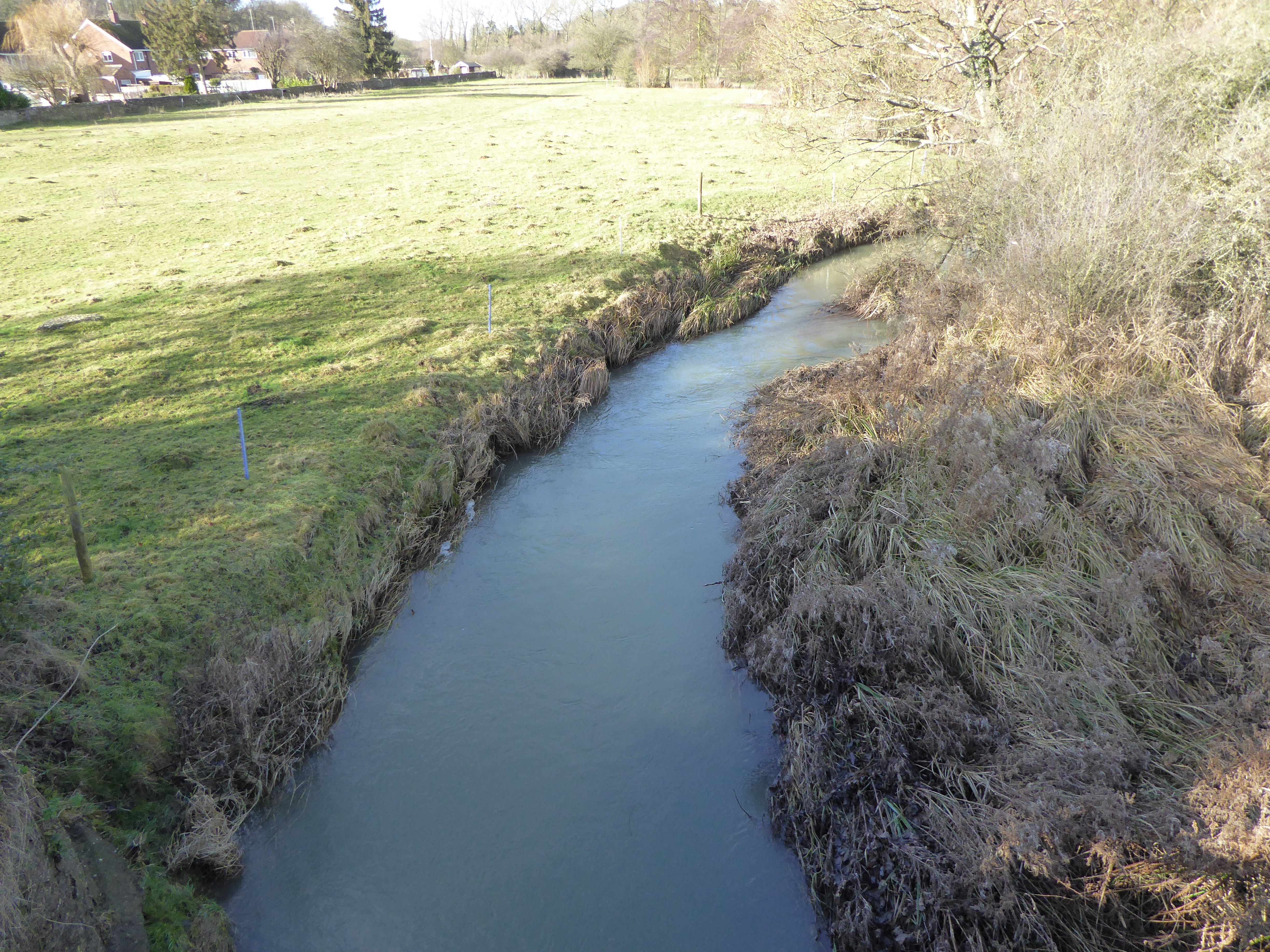 The River Ise in Geddington, Northamptonshire, is the western end of the River Ise and Meadows biological Site of Special Scientific Interest